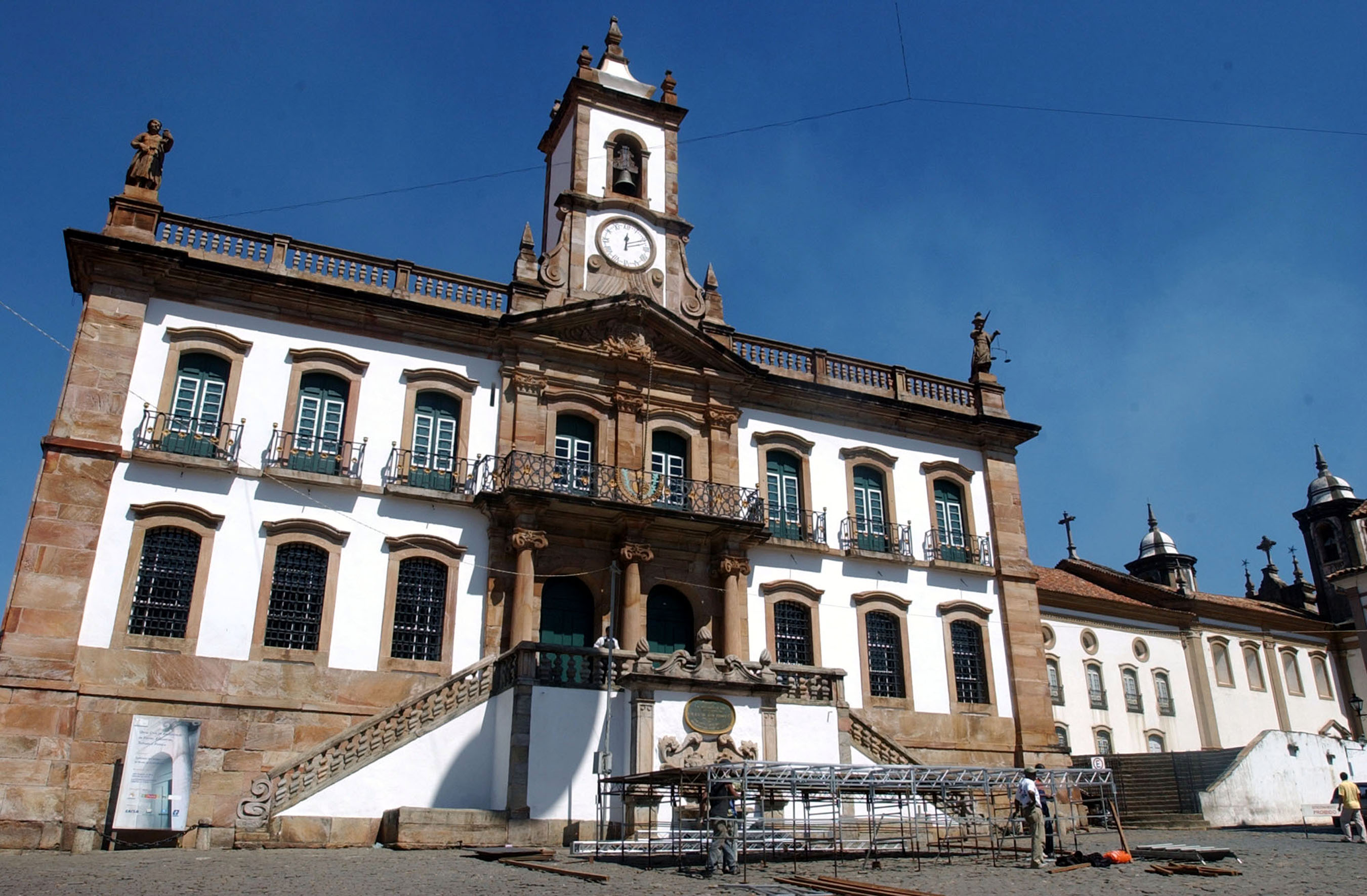 The "Museu da Inconfidência" in Ouro Preto, Minas Gerais, Brazil.